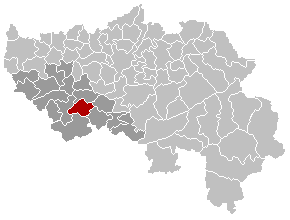 Map, municipality belgium TTinlot